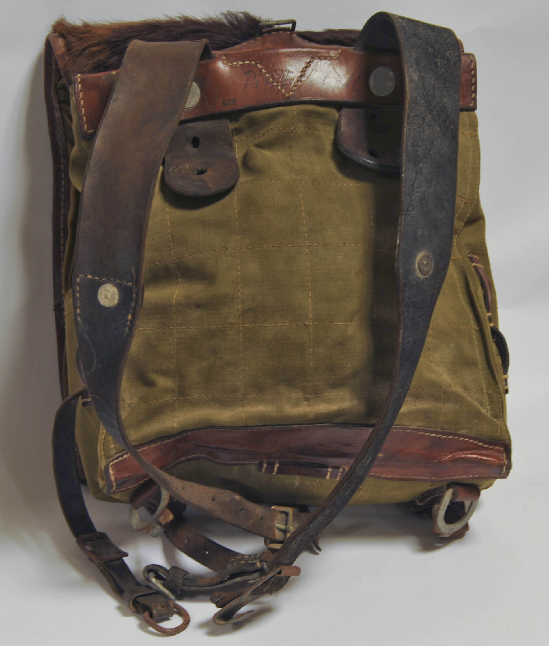 Backpack from 1940, used by German soldiers during World War II and named "Affe" (back side)